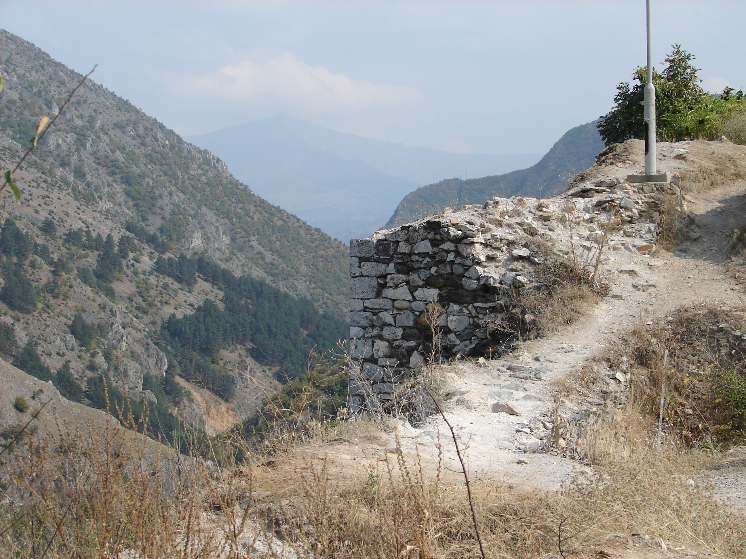 View on Bistrica canyon from Kaljaja fortress.